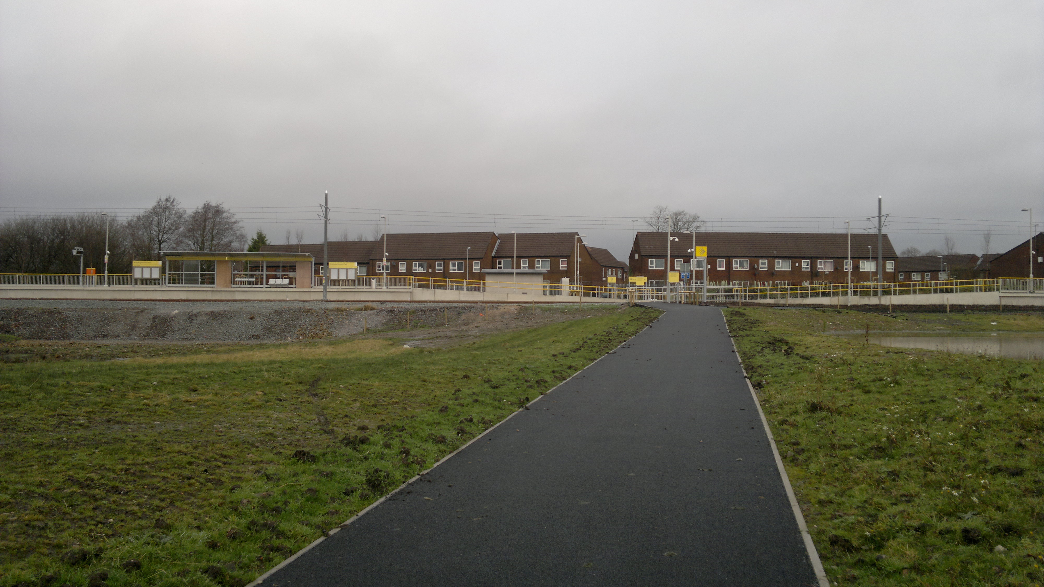 Kingsway Business Park Metrolink station, in January 2013, awaiting completion and opening. This stop is in Firgrove, along the Oldham and Rochdale Line (ORL), between Milnrow and Newbold.